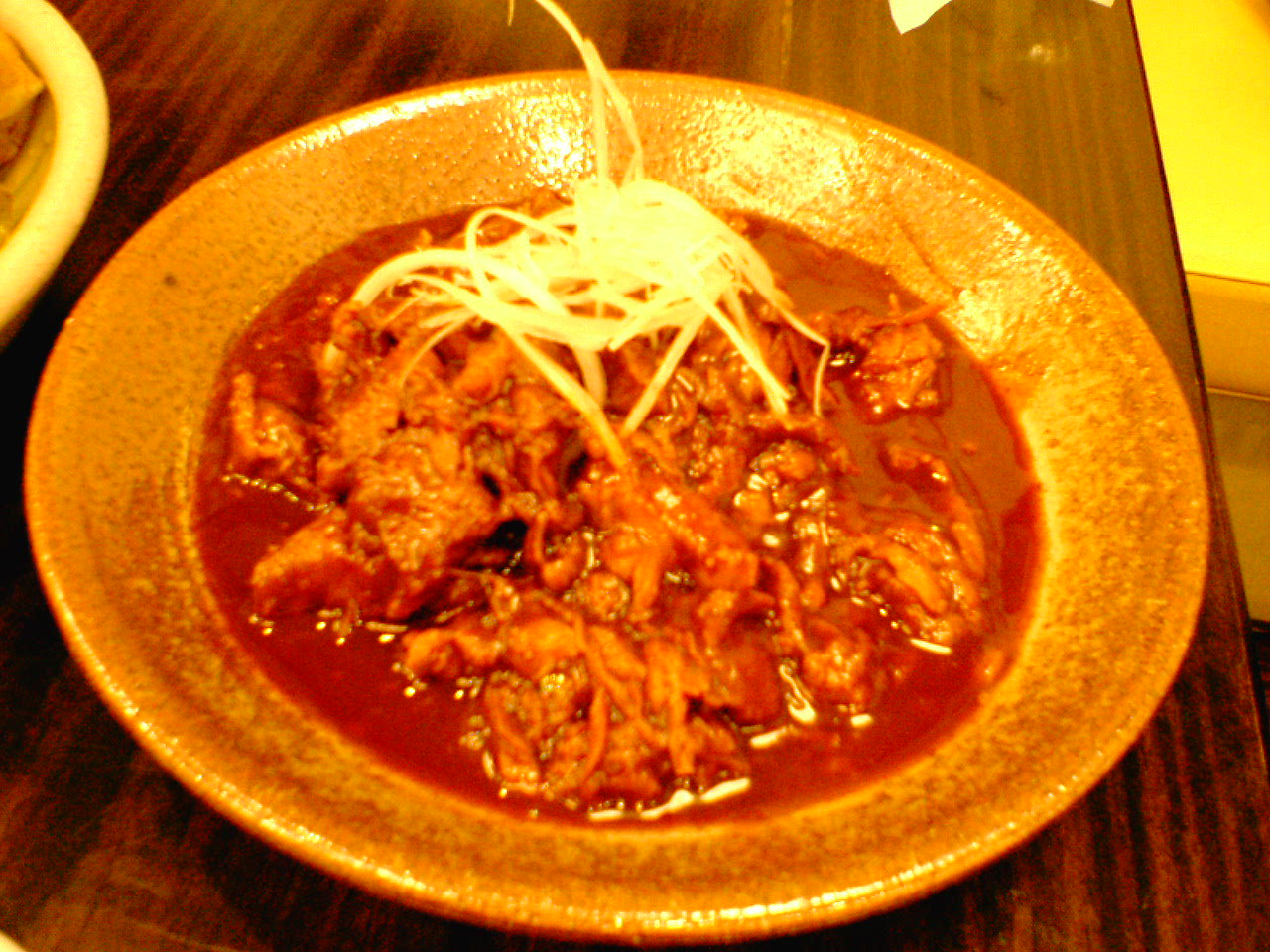 at Yabaton, authentic Nagoyan restaurant, in Ginza, Tokyoどて焼き（東京・中央区銀座4-10-14、東銀座駅最寄りの「みそかつ 矢場とん」東京銀座店[1]））